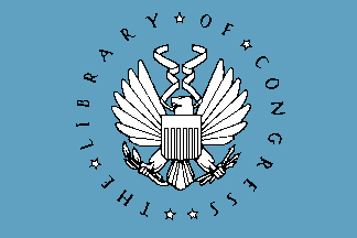 The official flag of the United States Library of Congress (LOC).